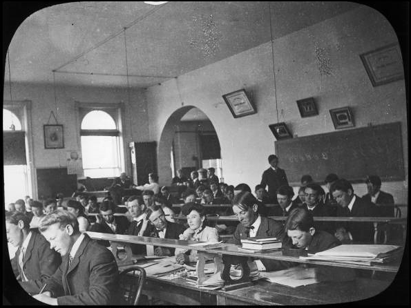 Popular also was the bookkeeping class in the Commercial College. Copied from B. F. Larsen glass slides.